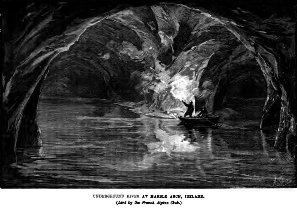 Drawing by Édouard-Alfred Martel of the underground river in Marble Arch Caves, with caption, as published in The Geographical Journal, 1897.